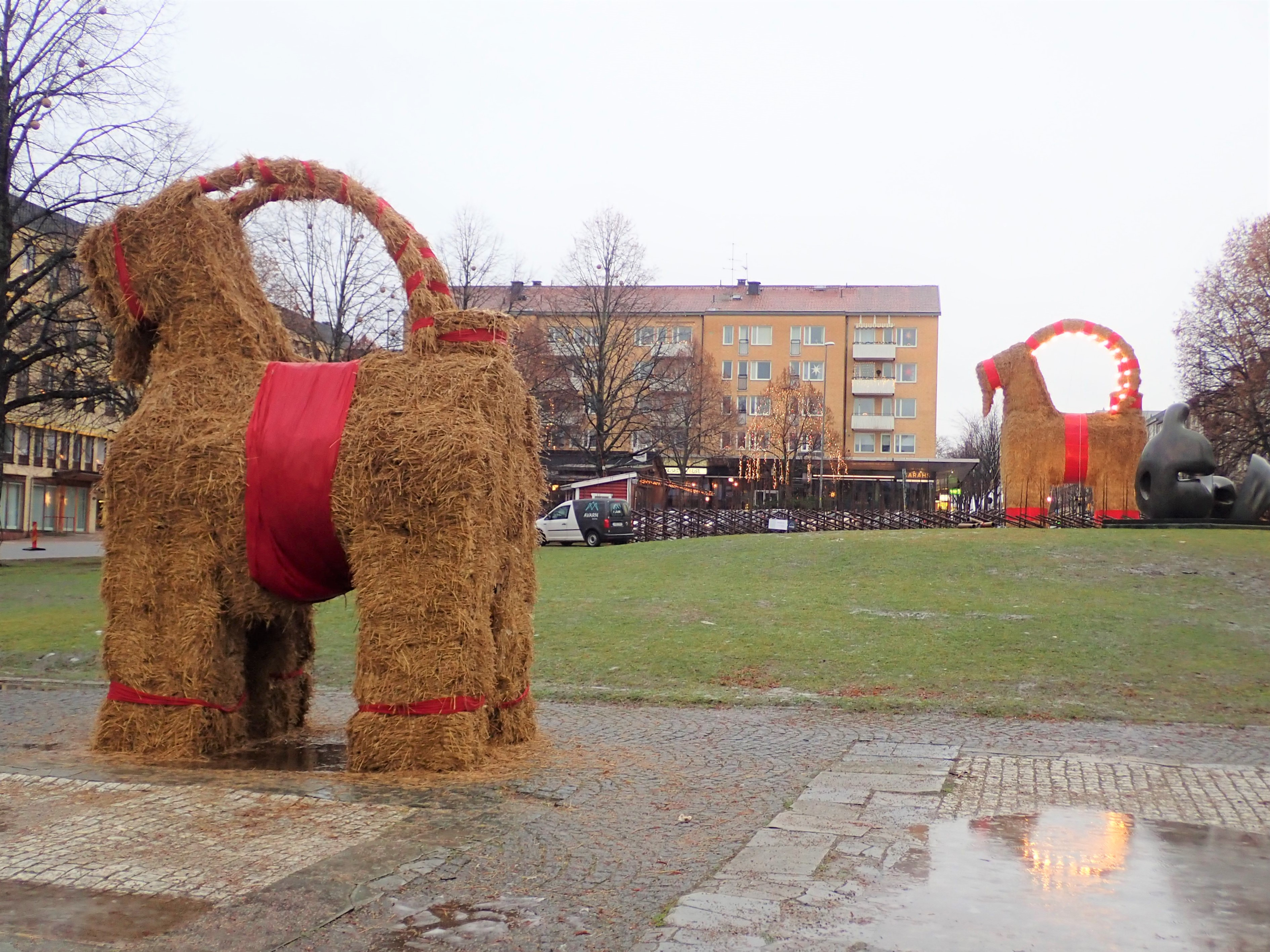 Gävle goats 2019 - this is the first time in history that the main goat seen in the background has survived three consequtive Xmas holiday seasons. The goat 2019 has been turned 180 degrees for a better view while approaching it - and also to make it easier to take selfies wit the goat.